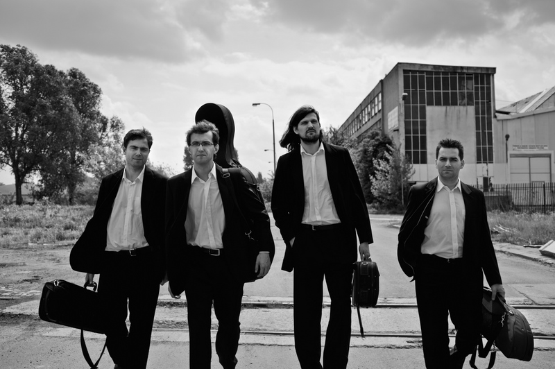 Mateusz Smoczynski, Krzysztof Lenczowski, Michal Zaborski, Dawid Lubowicz